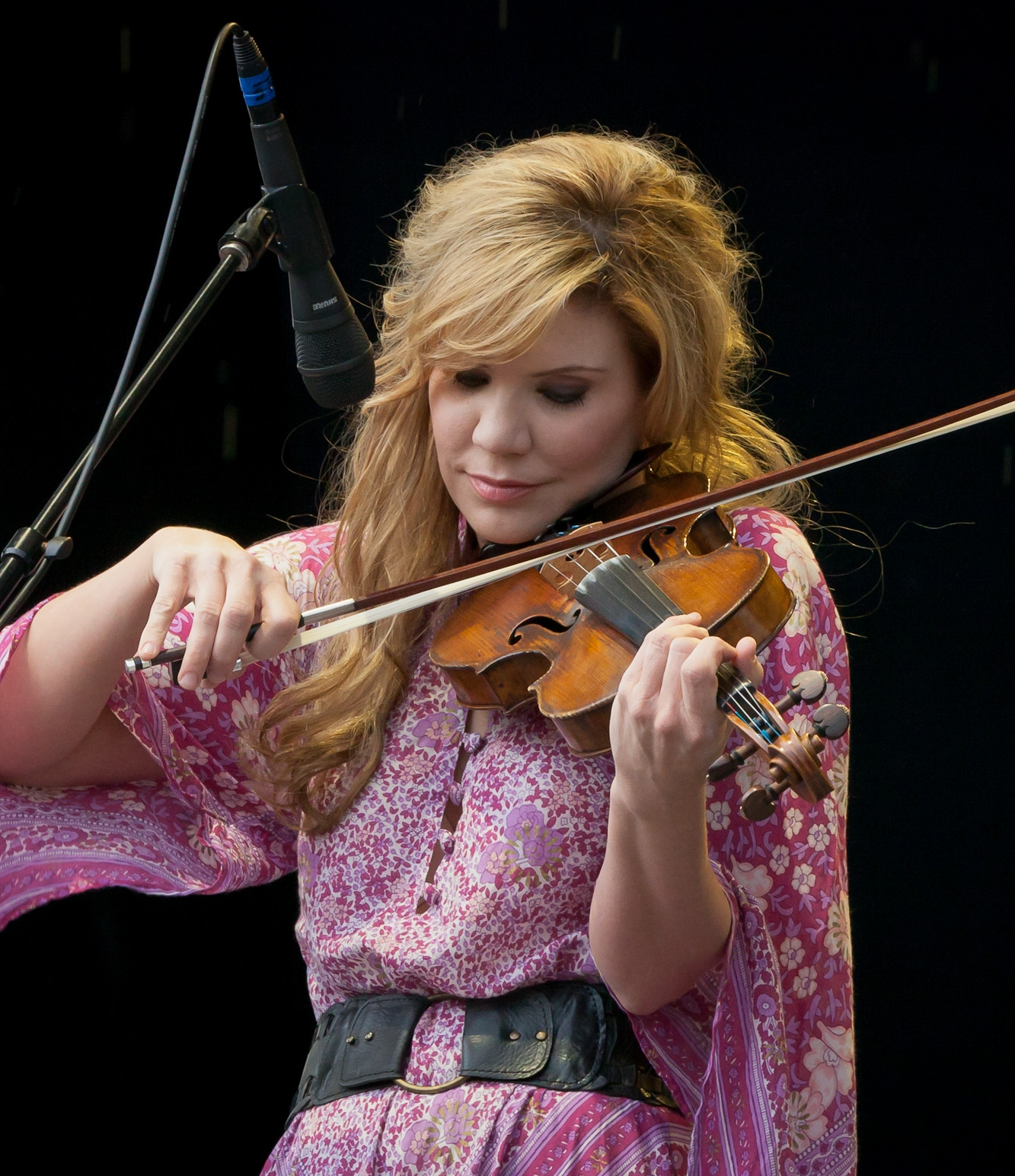 Krauss live September 24th 2011